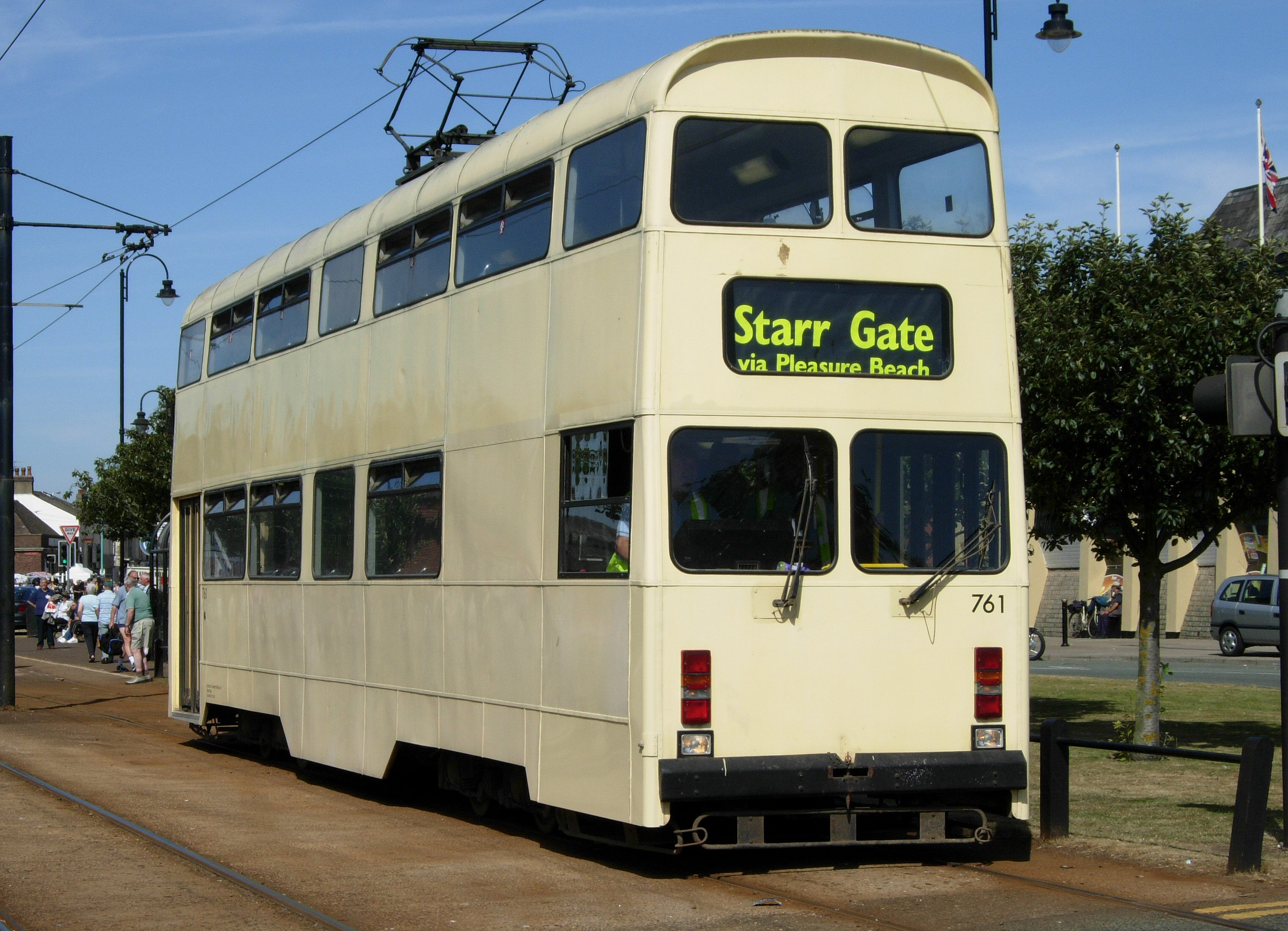 Jubilee Car~English Electric~1935 at Fleetwood, Ash Street on 16th July 2006. Blackpool Transport No.761.